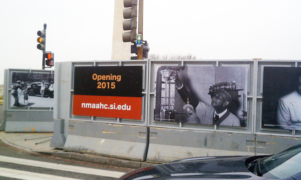 The construction signs on the site for the National Museum of African American History and Culture, a museum of the Smithsonian Institution. President Barack Obama broke ground for this new museum on Wednesday, February 22, 2012, in Washington, D.C., USA. Proposals for a museum began circulating in earnest in 1981. Legislation was introduced in Congress in 1987, but failed. For the next four years, the Smithsonian -- which has a long history of discriminating against blacks in hiring and promotion, and which largely ignored black and other minority history in its collections and exhibits -- finally agreed to back the museum. But concerns over the museum's impact were extensive. Many local African American museums feared the Smithsonian would suck up all the donor dollars, and out-bid them for collections and staff. They wanted federal grants to help them survive, but Congress was unwilling to give them. Others felt the Smithsonian would give short shrift to the museum, and that their hard-won independence from white-dominated local government would be replaced by dominance by the Smithsonian. Little action occurred throughout the 1990s. In 2001, new legislation was introduced in Congress. But a dispute broke out over the siting of the museum. The bill almost died again, but backers agreed to let an independent commission choose the site. The bill became law in 2003, and a site chosen in 2006. In 2008, the Smithsonian announced a design competition for the new museum. Out of hundreds of proposals, six finalists were announced in 2009. In April 2009, the Smithsonian chose the design submitted by the Freelon Group, Adjaye Associates, and Davis Brody Bond team. The museum is scheduled to open in 2015.